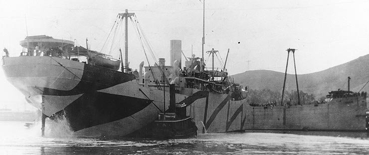 The commercial cargo ship SS Nantahala off San Francisco, California, when first completed, with the tug Sea Fox alongside. She is painted in dazzle camouflage. She later served as the United States Navy cargo ship .